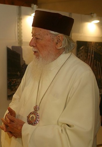 Patriarch Teoctist of the Romanian Orthodox Church visits the photo exhibit "Images of 9/11" by Joel Meyerowitz at the Romanian National Theater on Sept. 11, 2006. ===Source=== Public Diplomacy Office of the United States Embassy in Romania, Retrieved 2007-10-29.